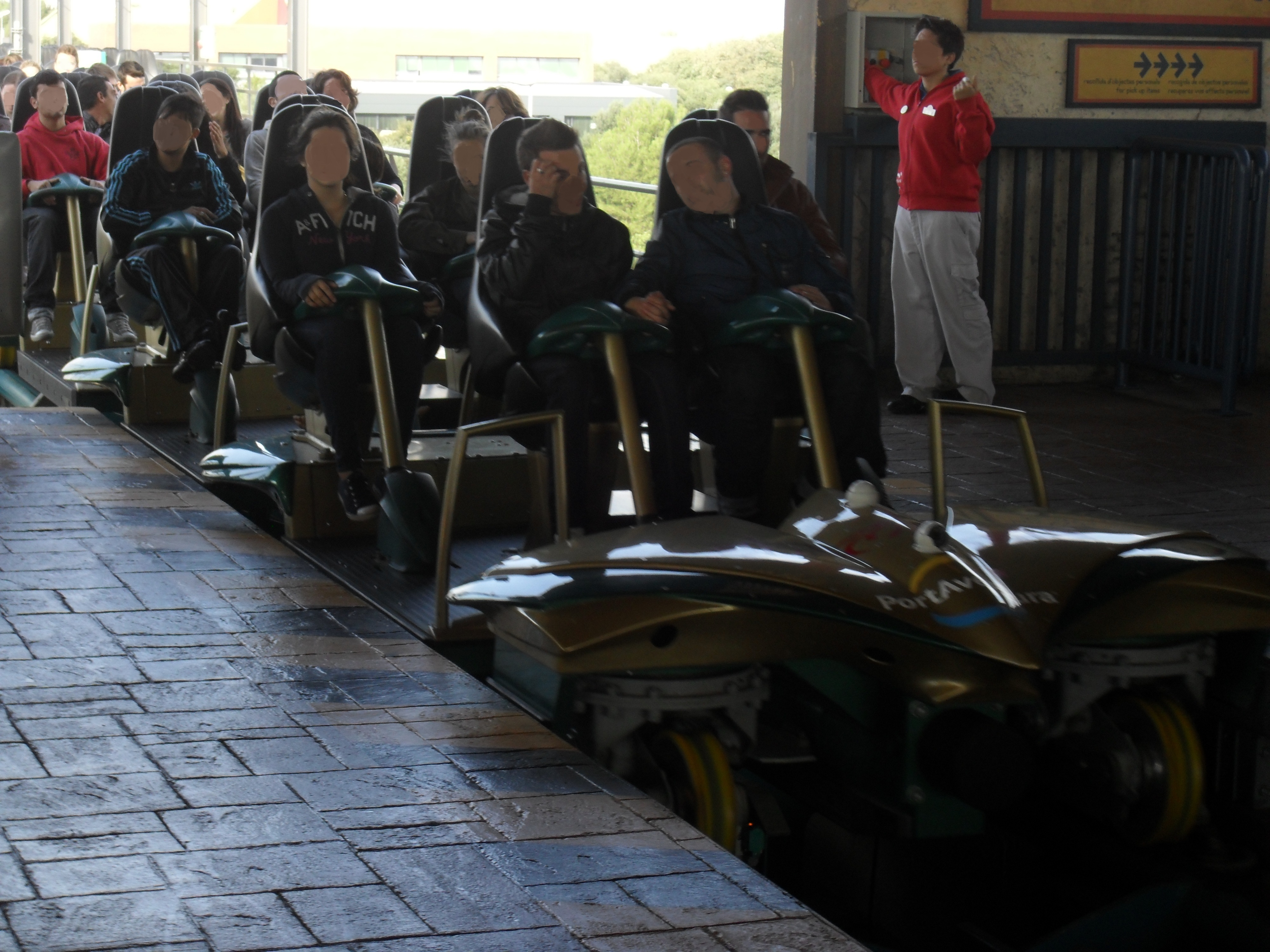 Train of Shambhala, at PortAventura, Spain